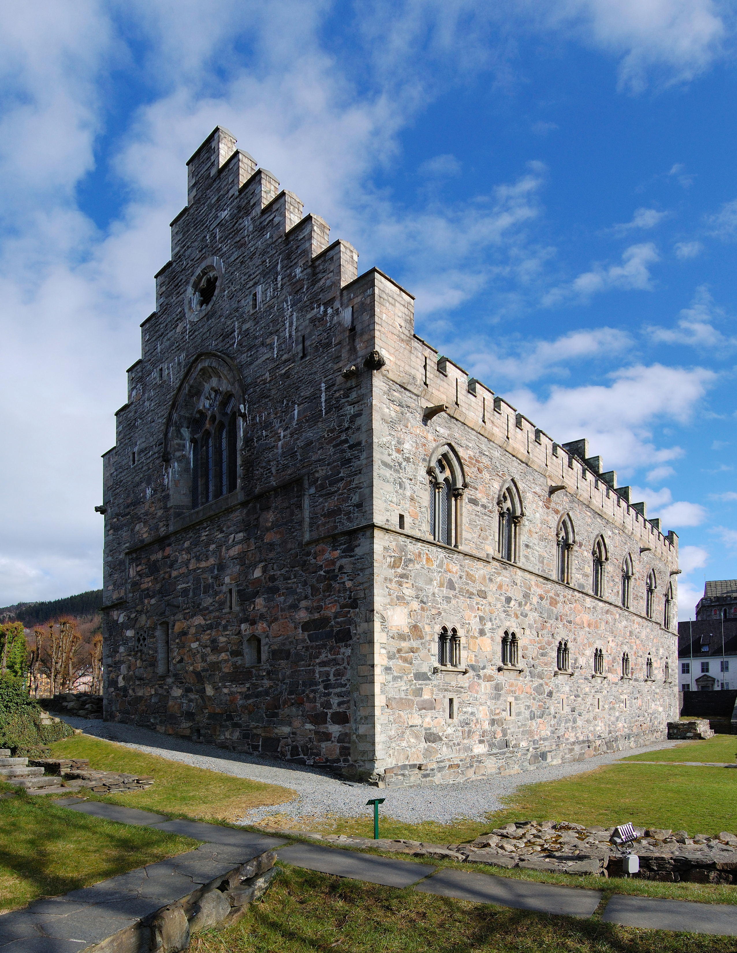 Håkonshallen in Bergenhus fortress in Bergen, Norway. This image was created with Hugin.